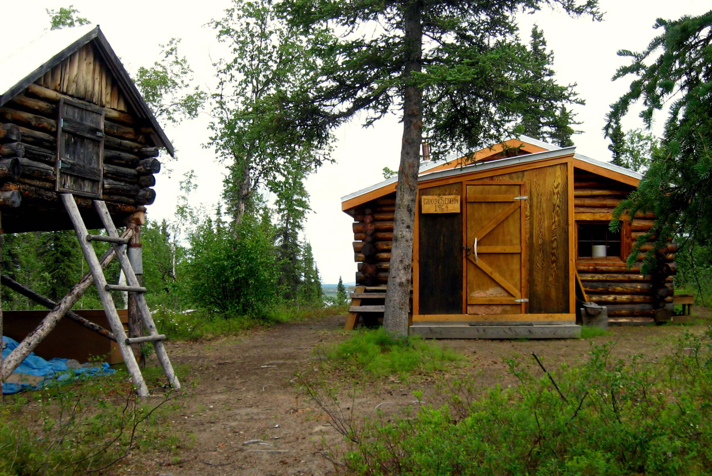 This historic cabin and elevated cache was built by famed archeologist J. Louis Giddings before the establishment of Kobuk Valley National Park. The Onion Portage area is a National Historic Landmark. Log cabin and log cache in the forest.